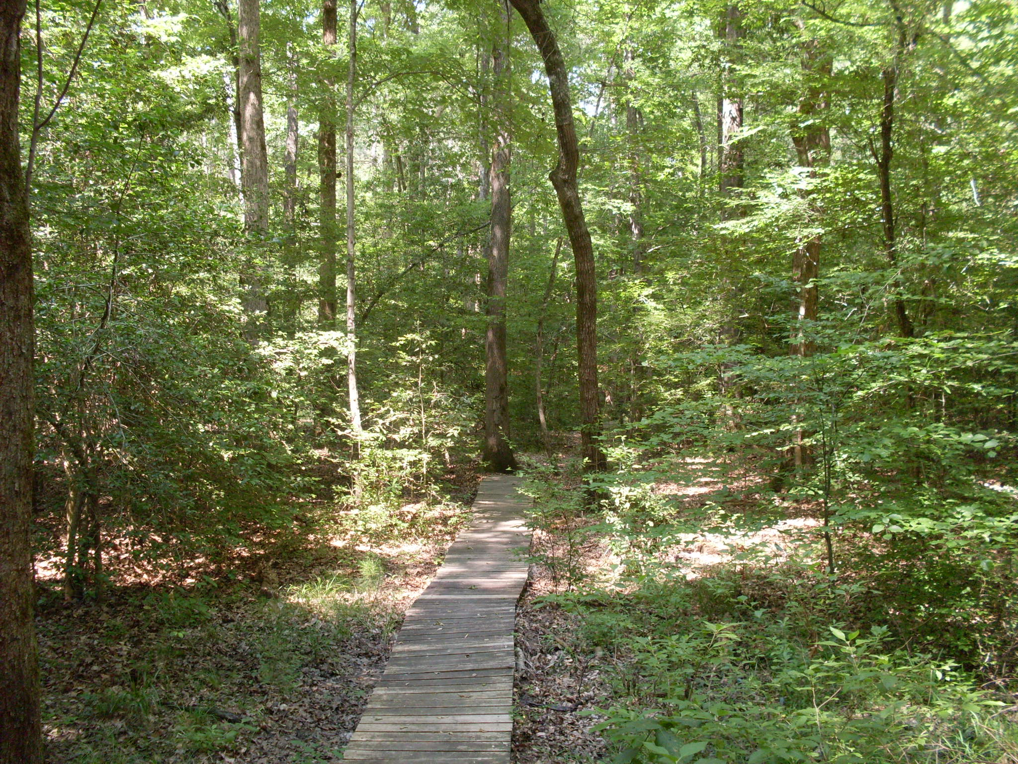 Beech Ridge Trail in White Oak Lake State Park, Piney Woods region, Arkansas, USA.